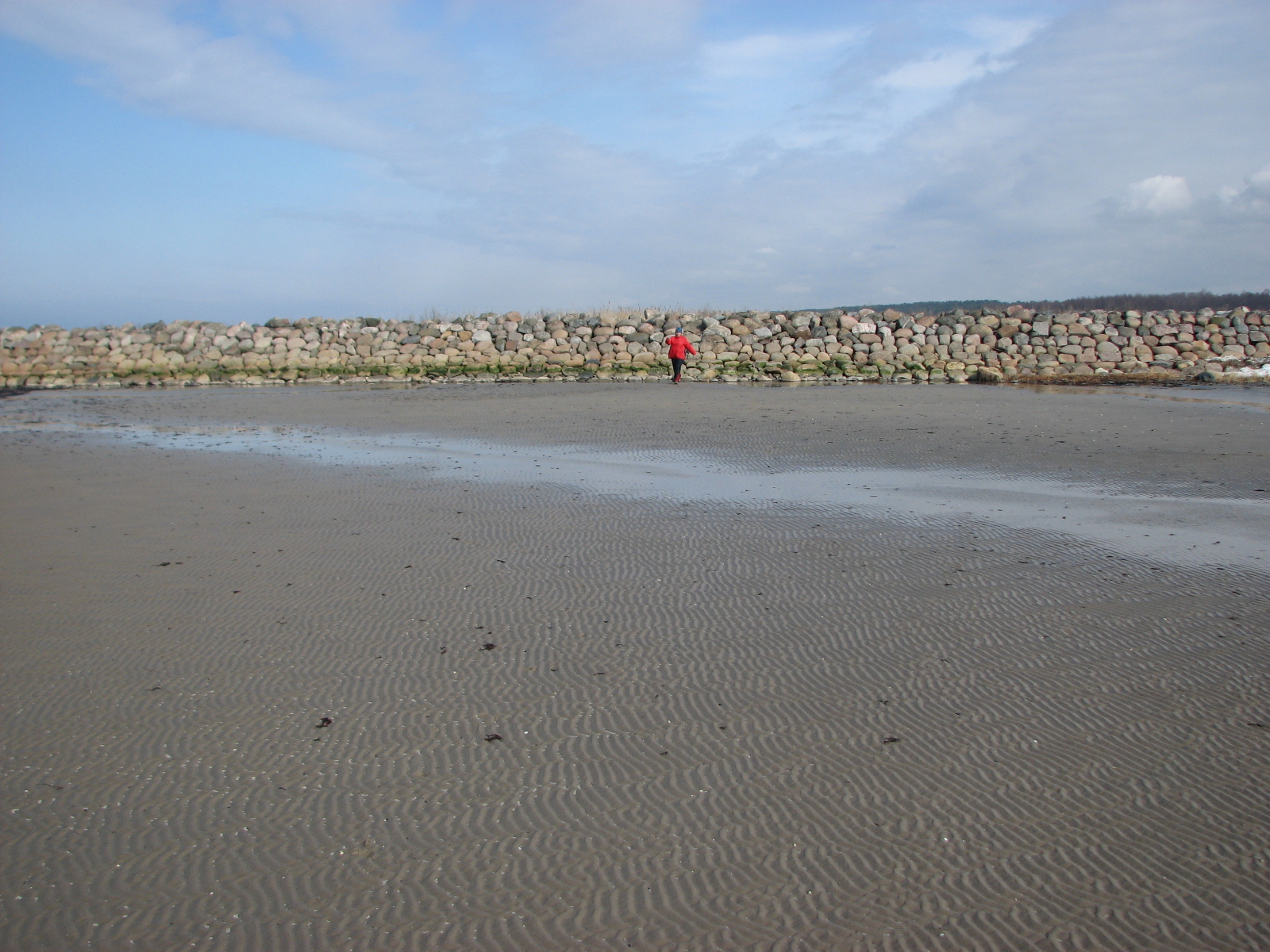 North Pier, Ainaži, Latvia